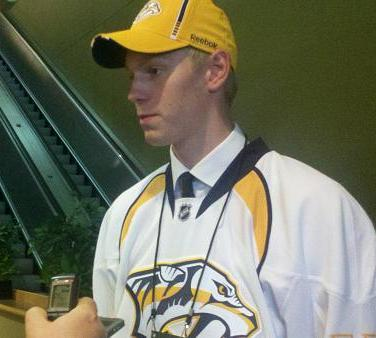 Predators 2011 second round pick Magnus Hellberg talks with the Nashville media following draft day in St. Paul, Minnesota.